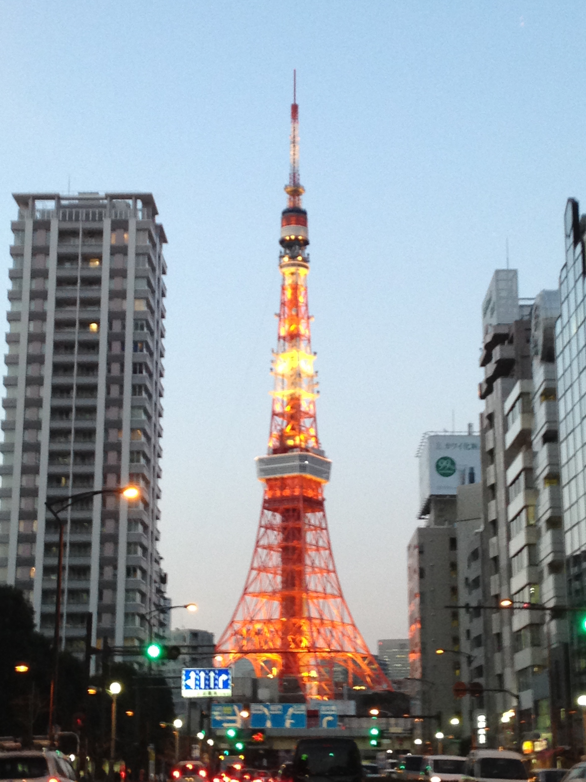 The view of Tokyo tower by Michael Kan